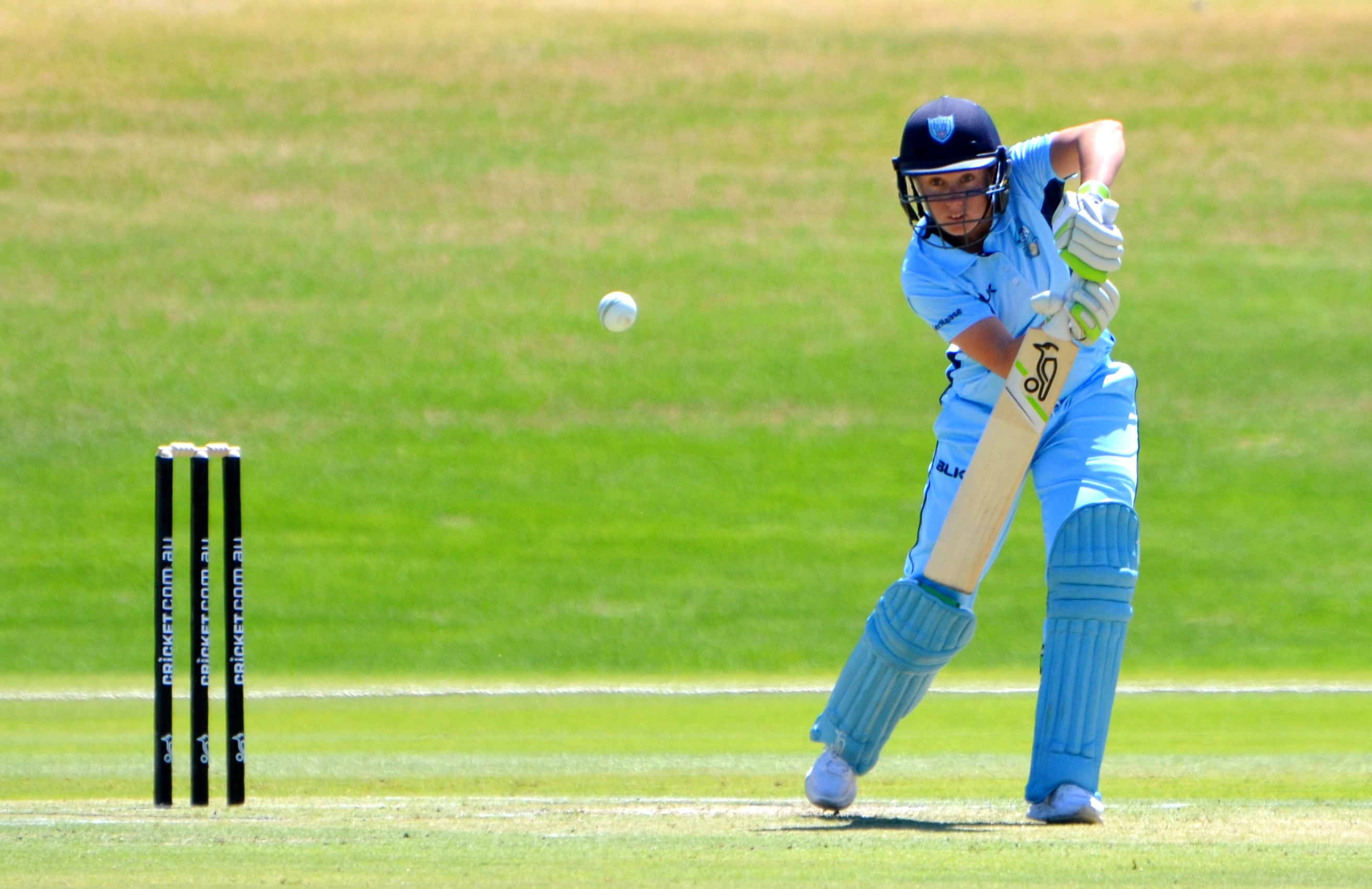 New South Wales Breakers wicketkeeper-batter Alyssa Healy on her way to a total of 7 runs against the ACT Meteors, in a WNCL top of the table clash at Murdoch University Sports Oval in Perth.